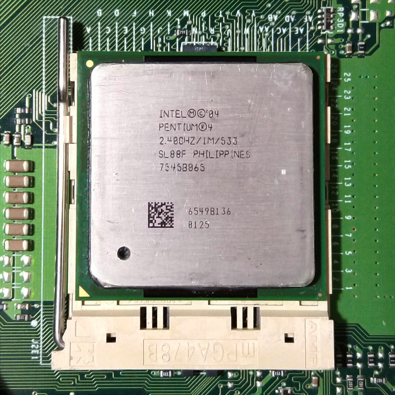 Pentium 4 "Prescott" 2.40 GHz 1 MB Cache, 533 FSB circa 2004 installed on a Intel D865GVHZ motherboard